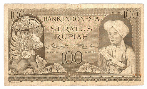 Indonesian currency IDR 100 with picture of Dipanegara, issued in 1952 after Independence.